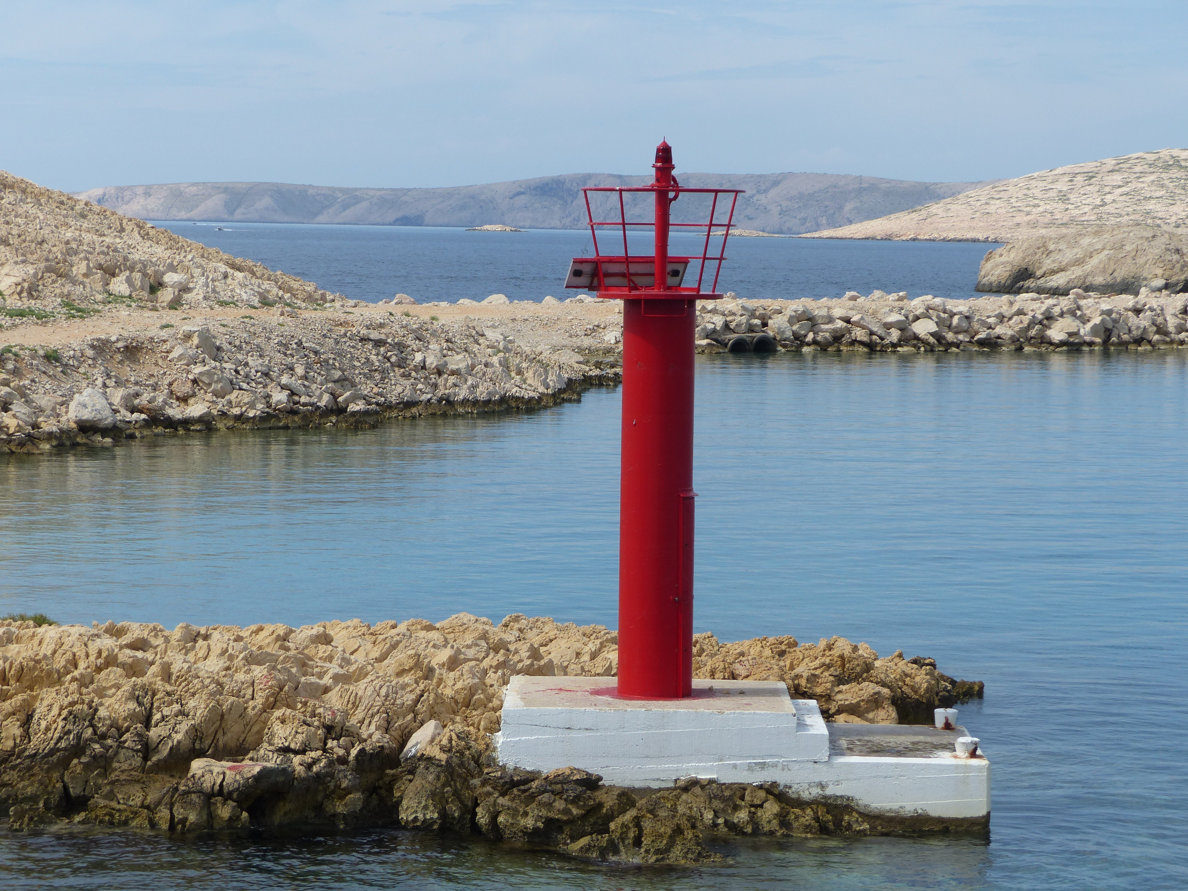 Taken on the 30th of June, 2016. Rab island, Croatia. Light tower. (Jabranac-Misnjak Ferry Route).